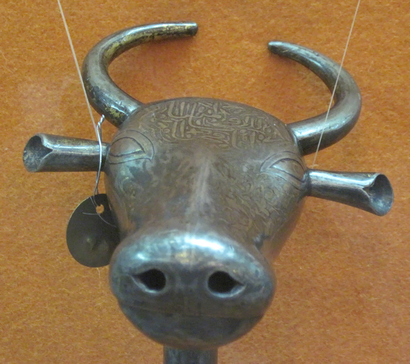 Shah Tahmasb's mallet. Safavid Empire art. گرز گاوسر متعلق به شاه طهماسب صفوی